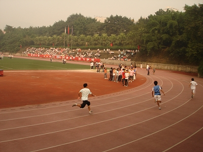 The playground of Chongqing Nankai Middle School. 中文（中国大陆）: 重庆南开中学体育场